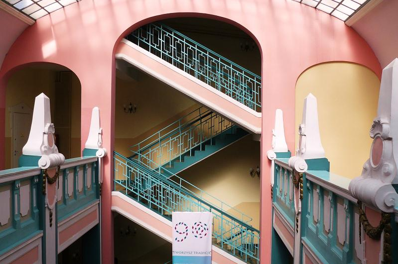 Main holl of the II Liceum in Poznan - Matejki Street.